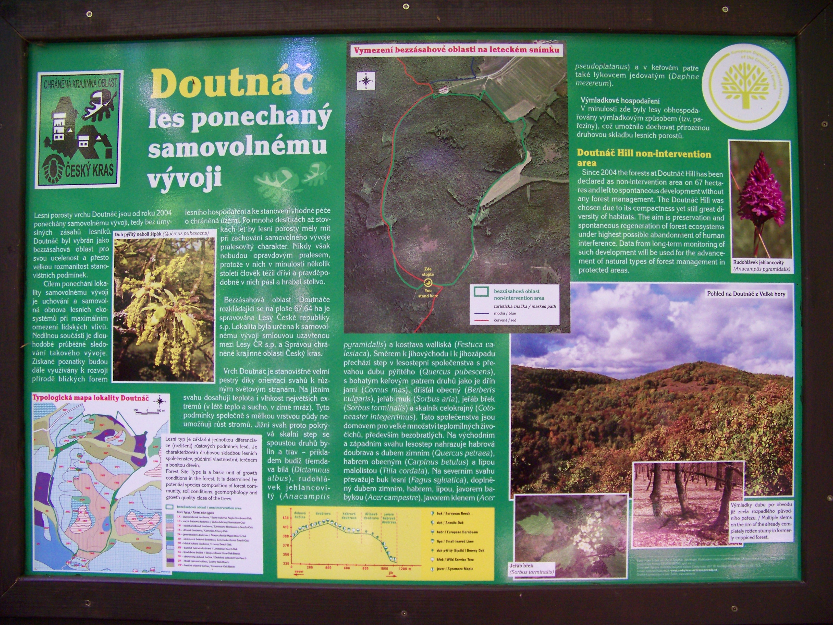 Srbsko, Beroun District, Central Bohemian Region, the Czech Republic. The Bohemian Carst.